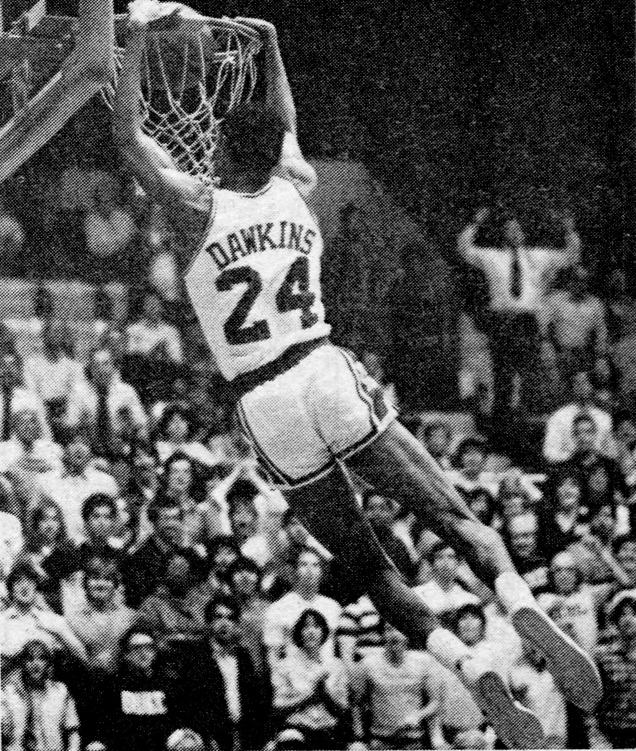 Duke Blue Devils freshman Johnny Dawkins makes a dunk during the 1982–83 men's basketball season. Scanned from a 1983 issue of the Duke Chronicle, the student newspaper of Duke University